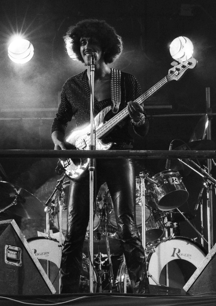 Phil Lynott #3 with Thin Lizzy, Pinkpop festival, 1978